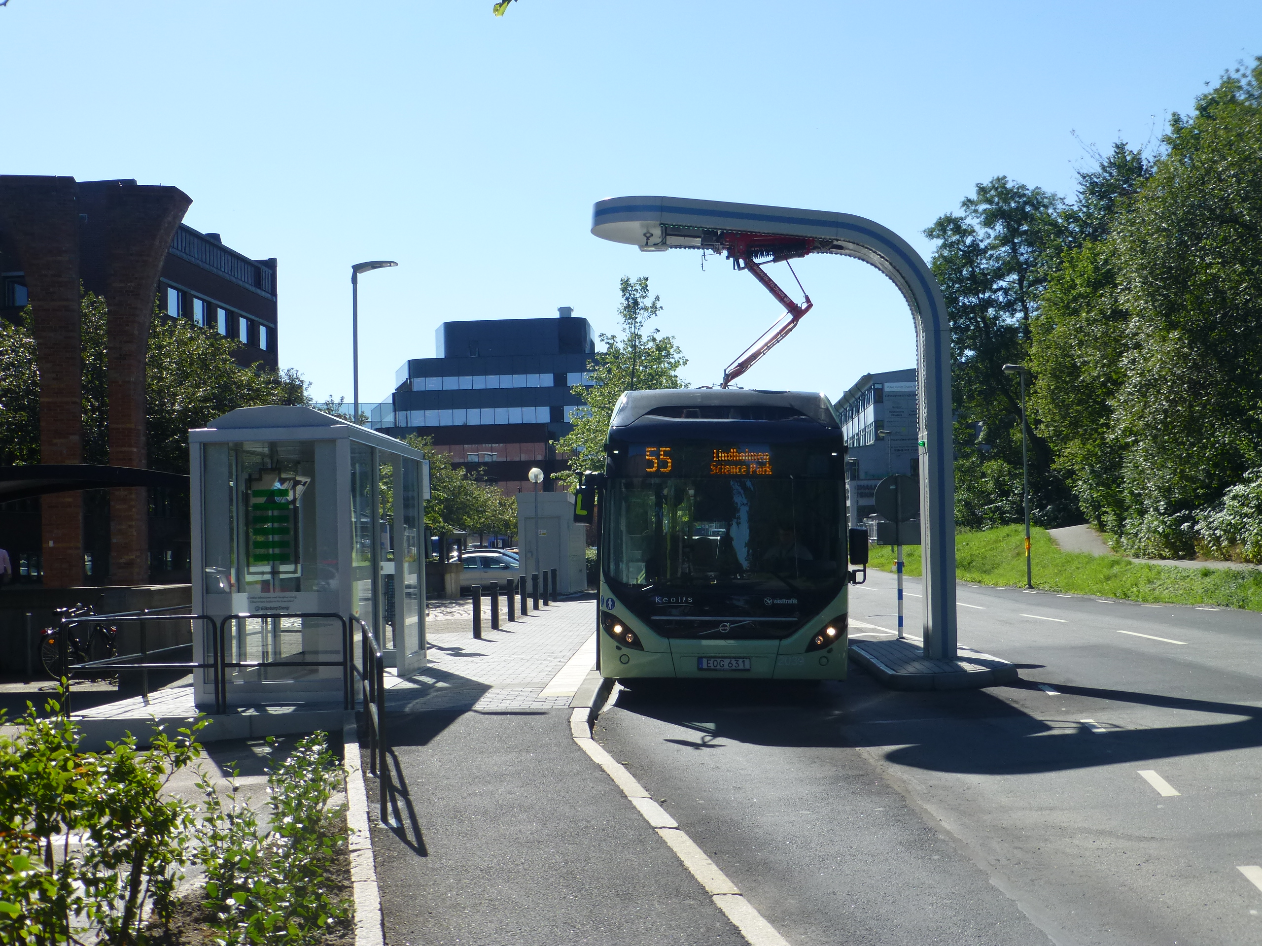 ElectriCity is a test with electric buses and electric hybrid buses in Göteborg. The endpoint Sven Hultins plats at Johanneberg Science park.